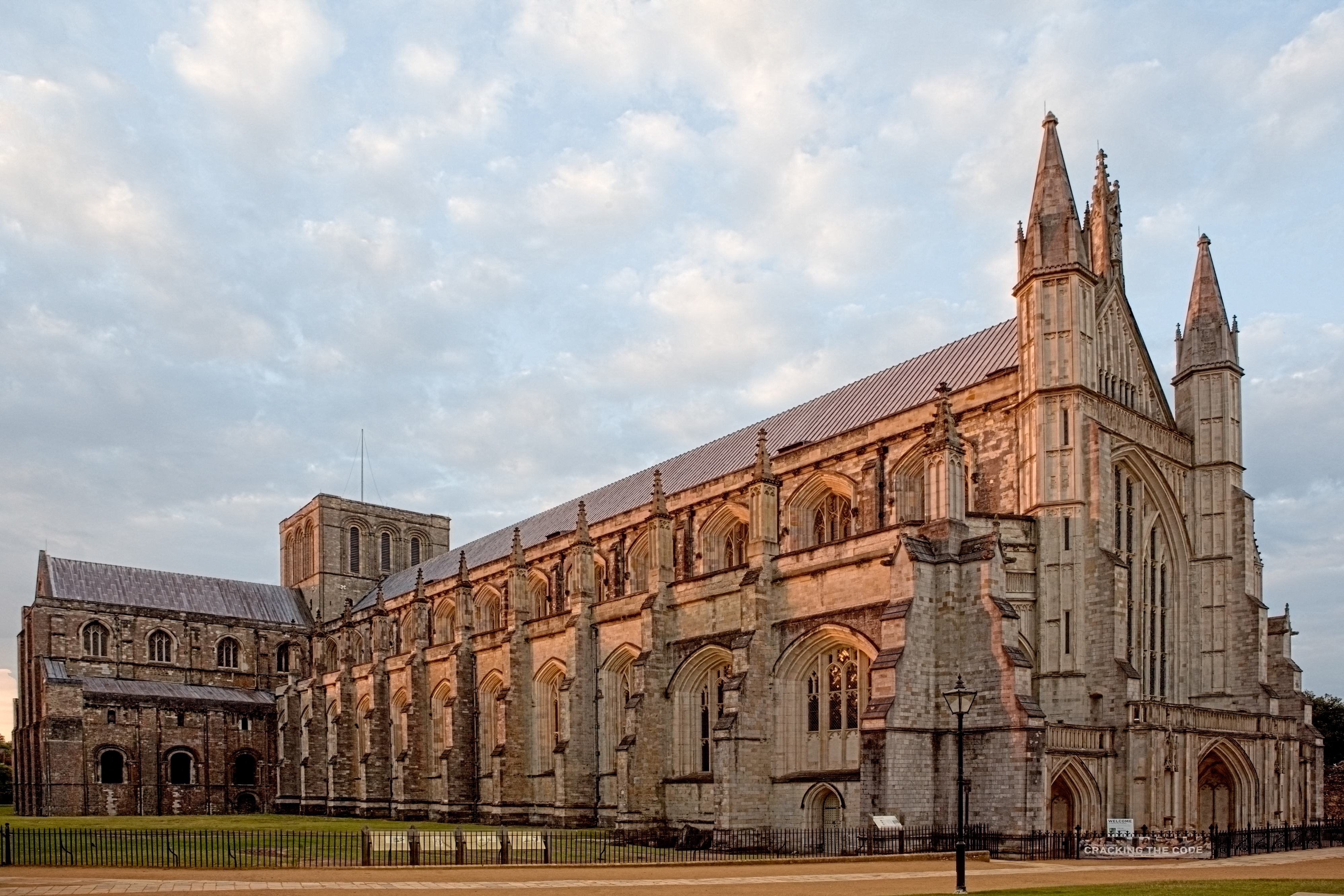 4am shot of Winchester Cathedral showing west end, central tower & UKs 2nd longest cathedral nave